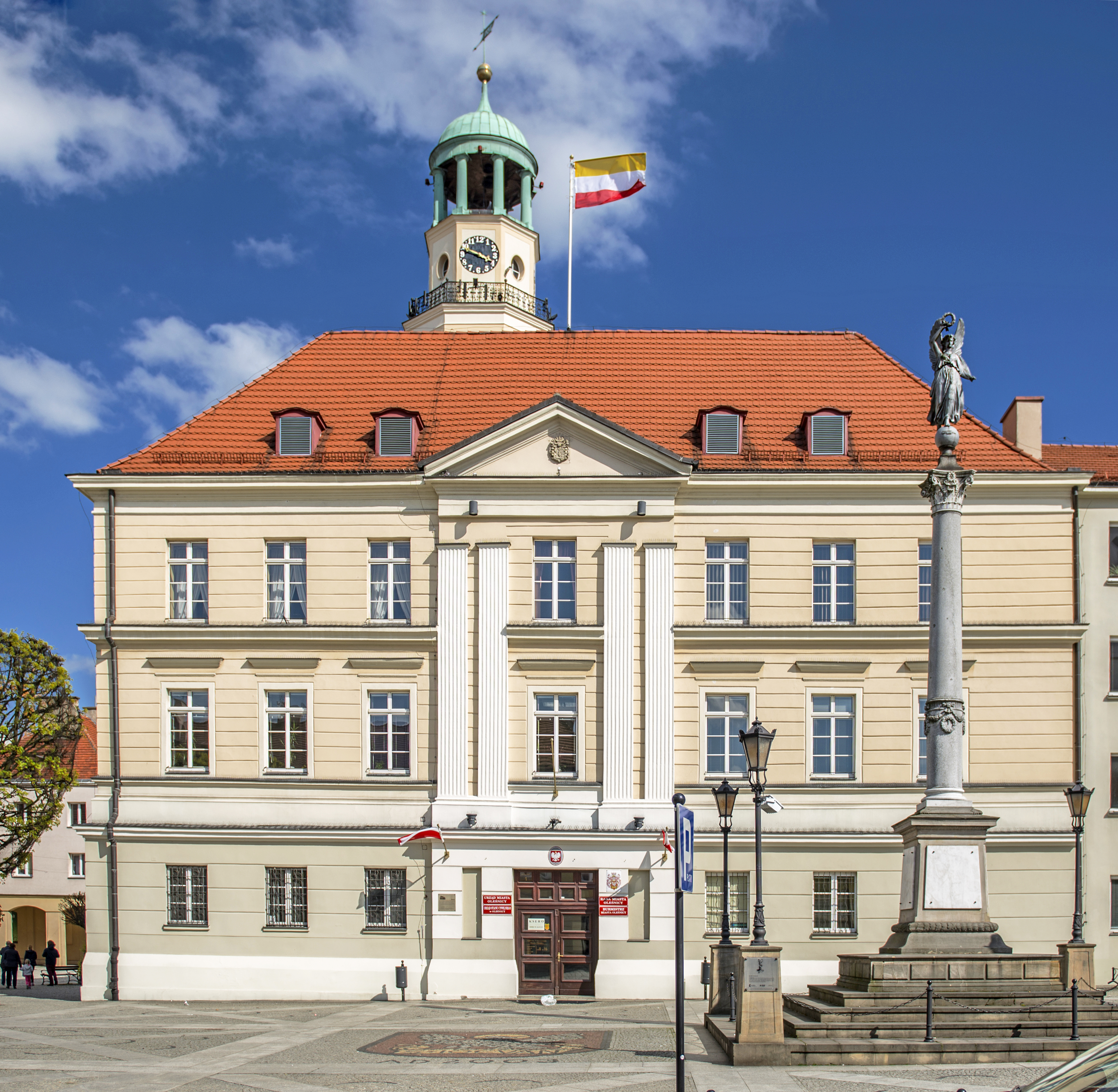 The Town Hall and The Victory Column